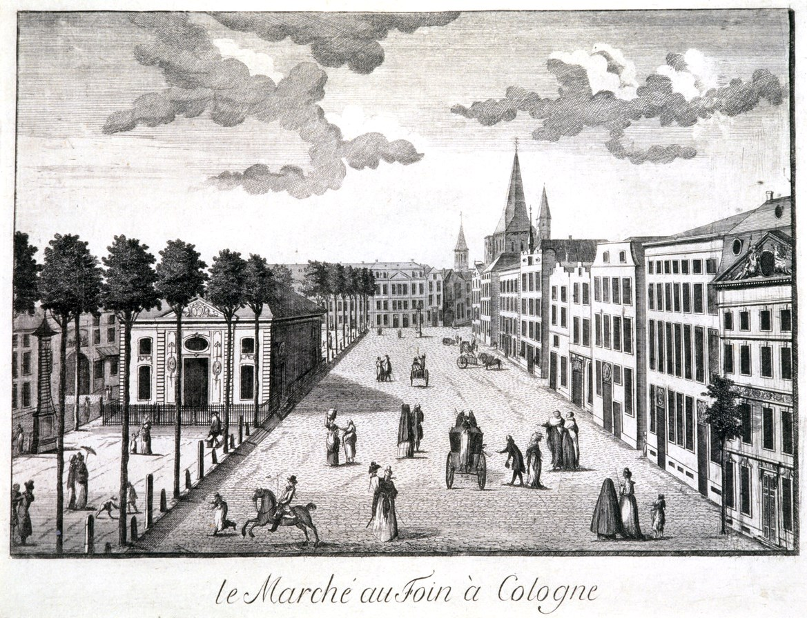 Dupuis, Charles, Le Marché au Foin à Cologne / Heumarkt und Börse, Kupferstich, Köln?, nach 1795 (Köln, Kölnisches Stadtmuseum, A I 3/485, rba_c019652).